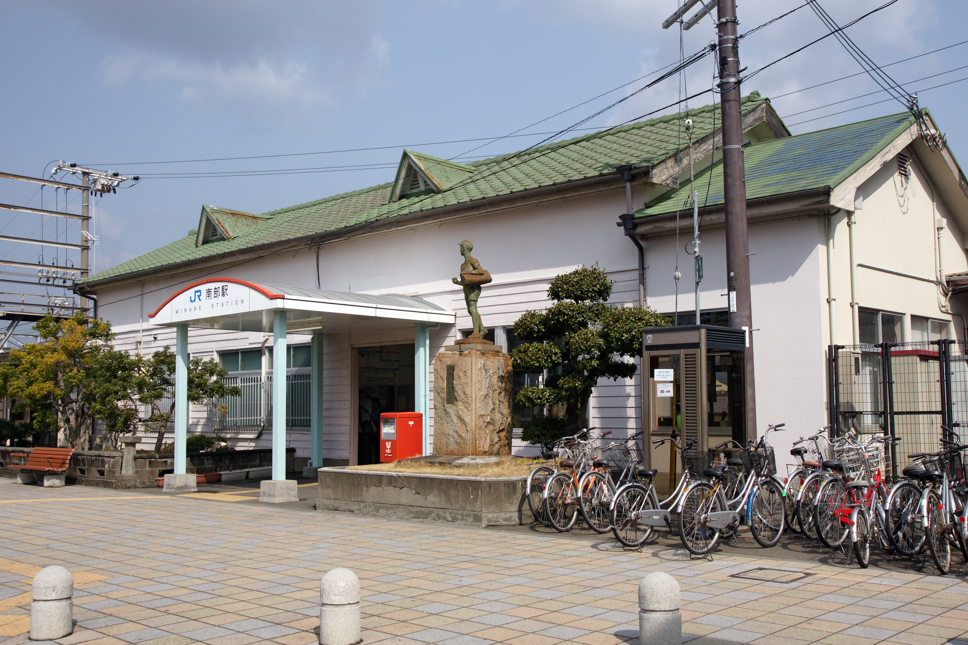 Minabe Station, Minabe, Wakayama prefecture, Japan